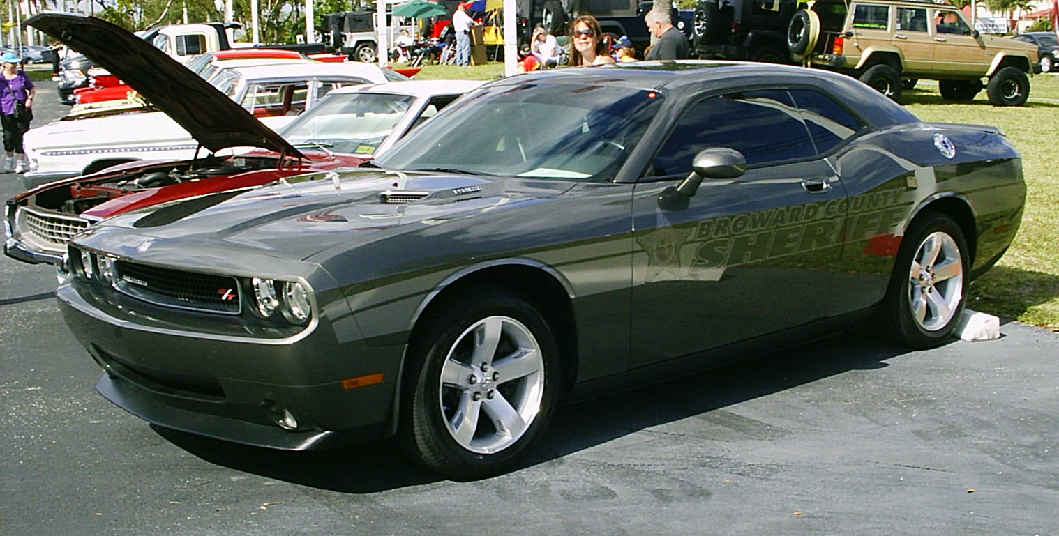 Broward County (Florida) Sheriff's 2010 Challenger R/T pursuit vehicle - front left side.